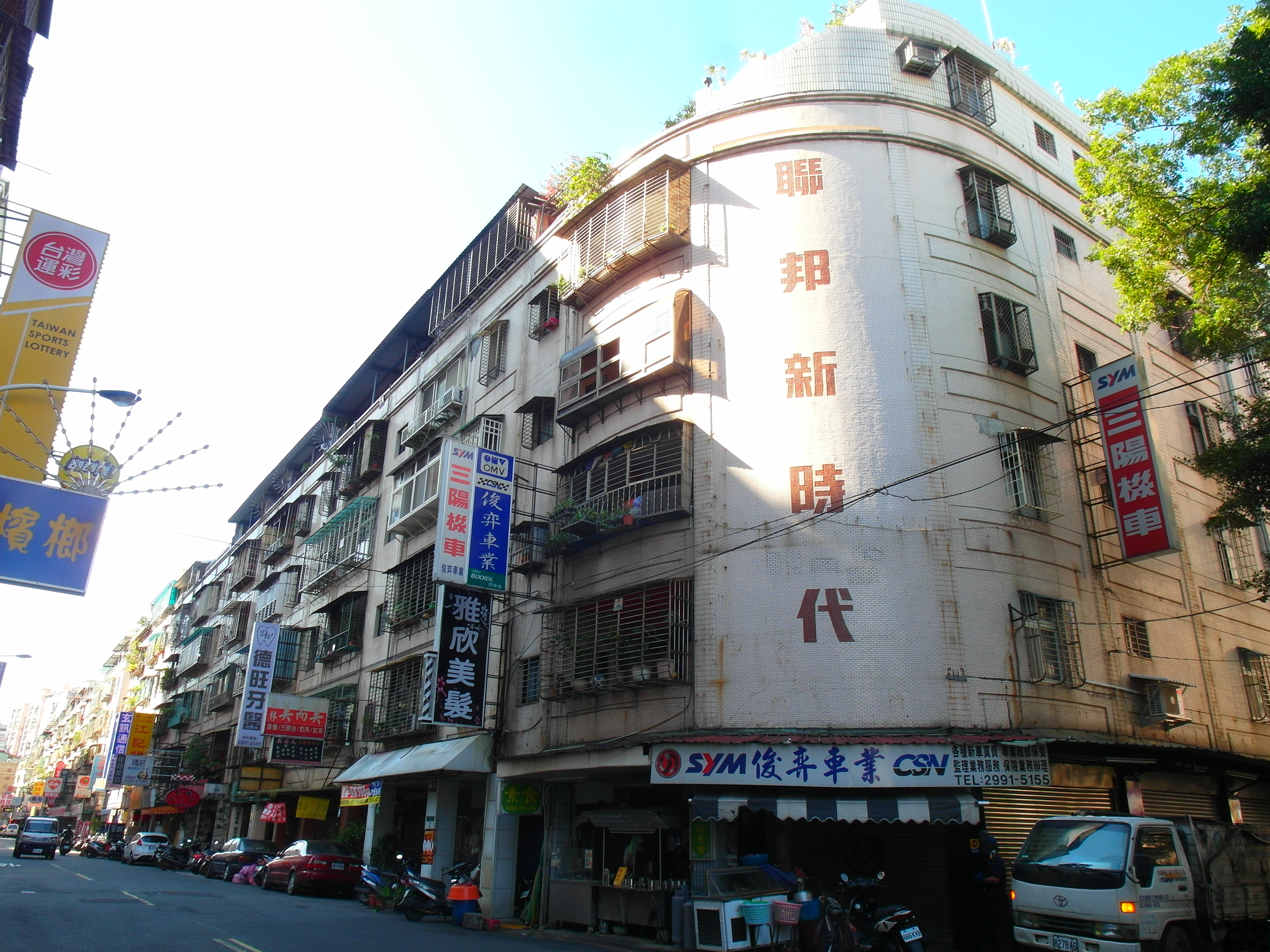 Union New Era building in Xinzhuang District, New Taipei, Taiwan.